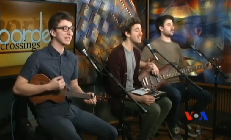 Extracted from the video. AJR performing on the VOA program "Border Crossings".